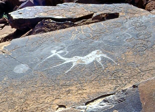 "Dancing Kudu" Petroglyph, Twyfelfontein, Namibia